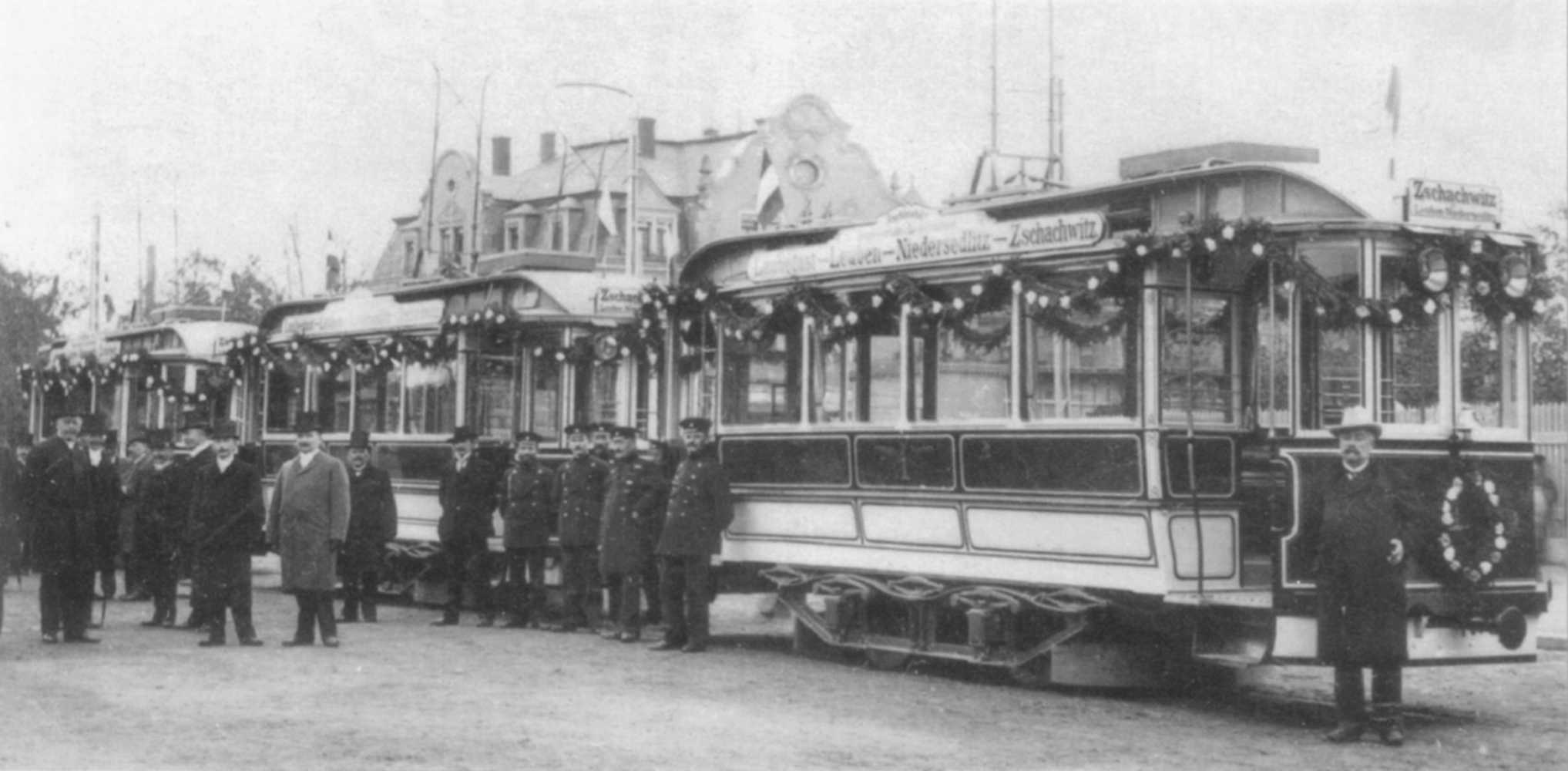 Opening ceremony of the tram "Dresdner Vorortbahn" in Dresden-Leuben, Germany on 17th Oct. 1906